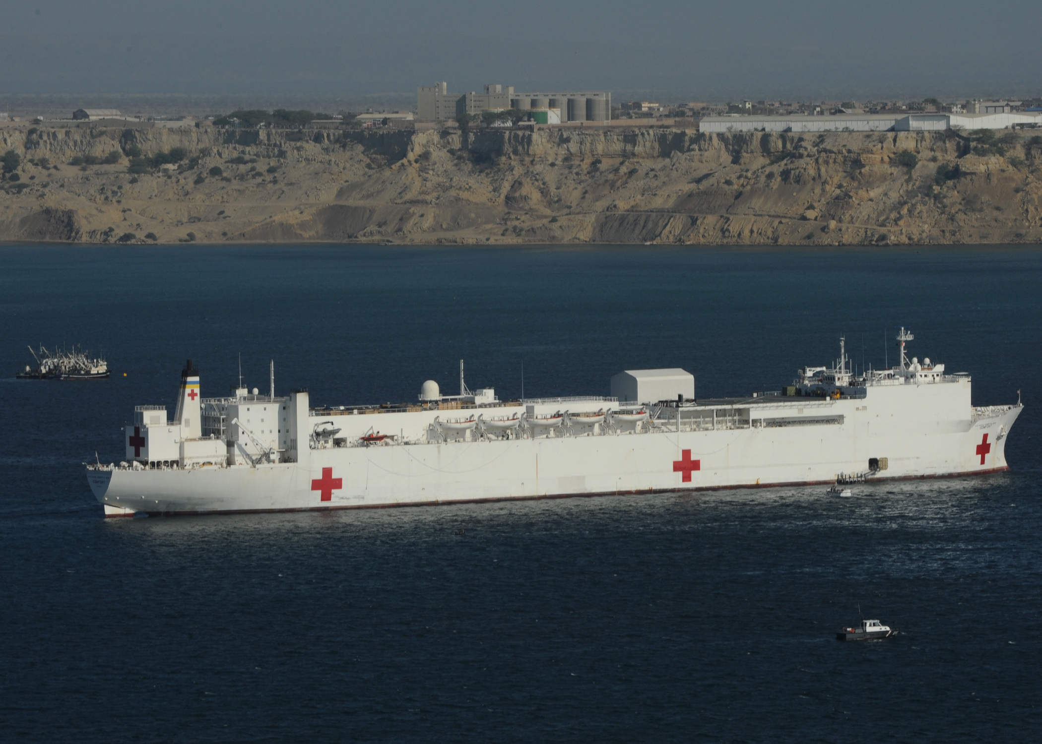 PAITA, Peru (April 30, 2011) The Military Sealift Command hospital ship USNS Comfort (T-AH 20) is anchored off Paita, Peru during a Continuing Promise 2011 port visit. Continuing Promise is a five-month humanitarian assistance mission to the Caribbean, Central and South America. (U.S. Navy photo by Mass Communication Specialist 2nd Class Eric C. Tretter/Released)